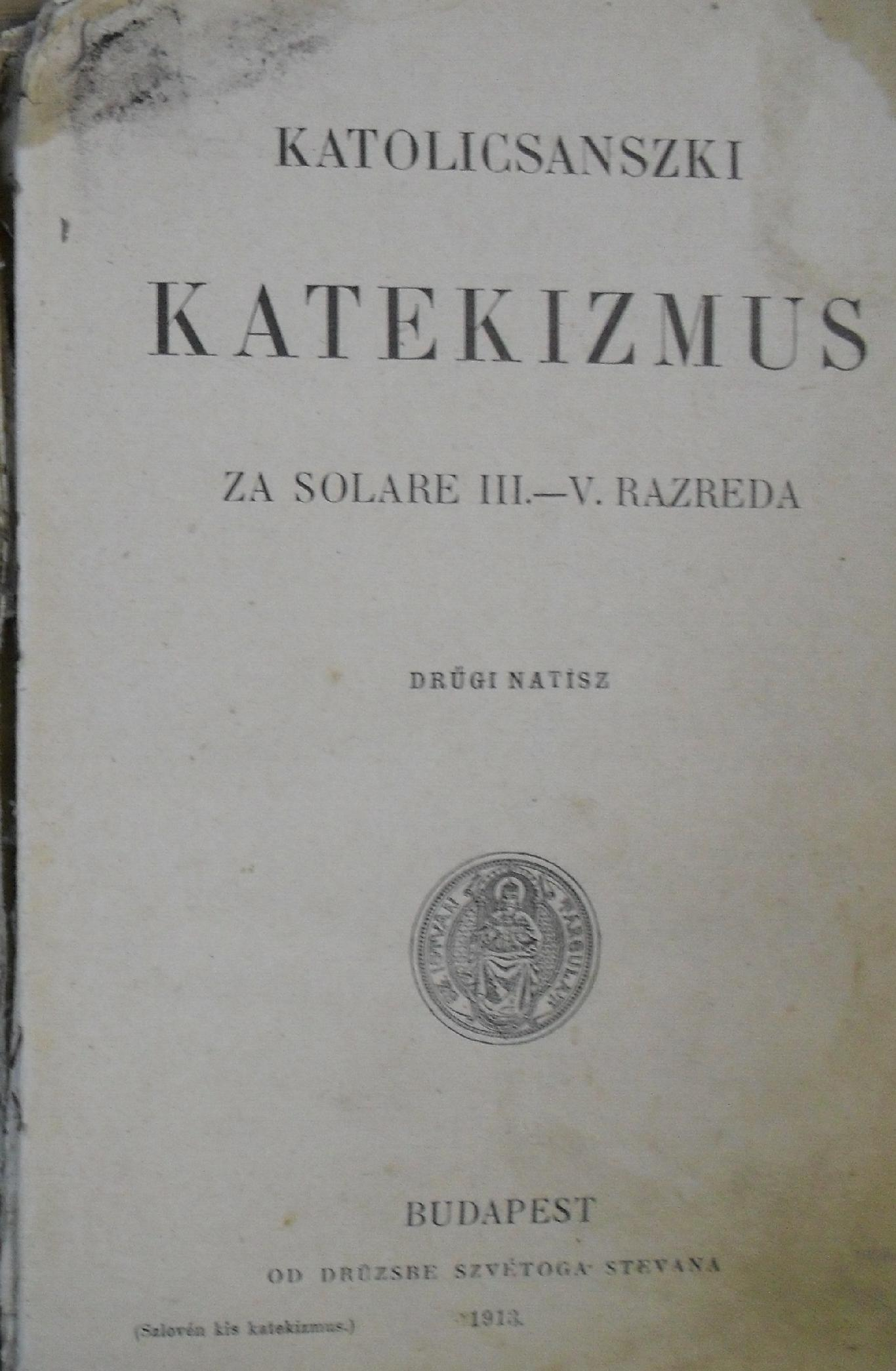 Iván Bassa: Katolicsánszki katekizmus za solare (Catholic cathecism for the school childern), prekmurian cathecism from 1913. Second issue.